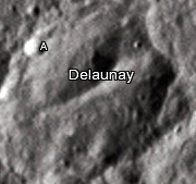 Delaunay lunar crater as seen from Earth with satellite craters labeled